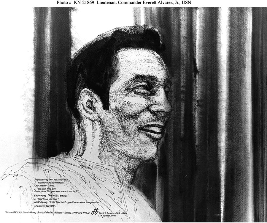 "Welcome Home" Sketch by combat artist, Dante H. Bertoni at the Welcoming Ceremonies at Clark Air Force Base, Philippine Islands upon Alvarez' return after being a Prisoner of War in Vietnam. On 5 August 1964, then Lieutenant Junior Grade Alvarez' plane was shot down. Held captive for eight years, he was released in March 1973. While captive, he was advanced in rank. In 1980, Alvarez retired as a Commander.